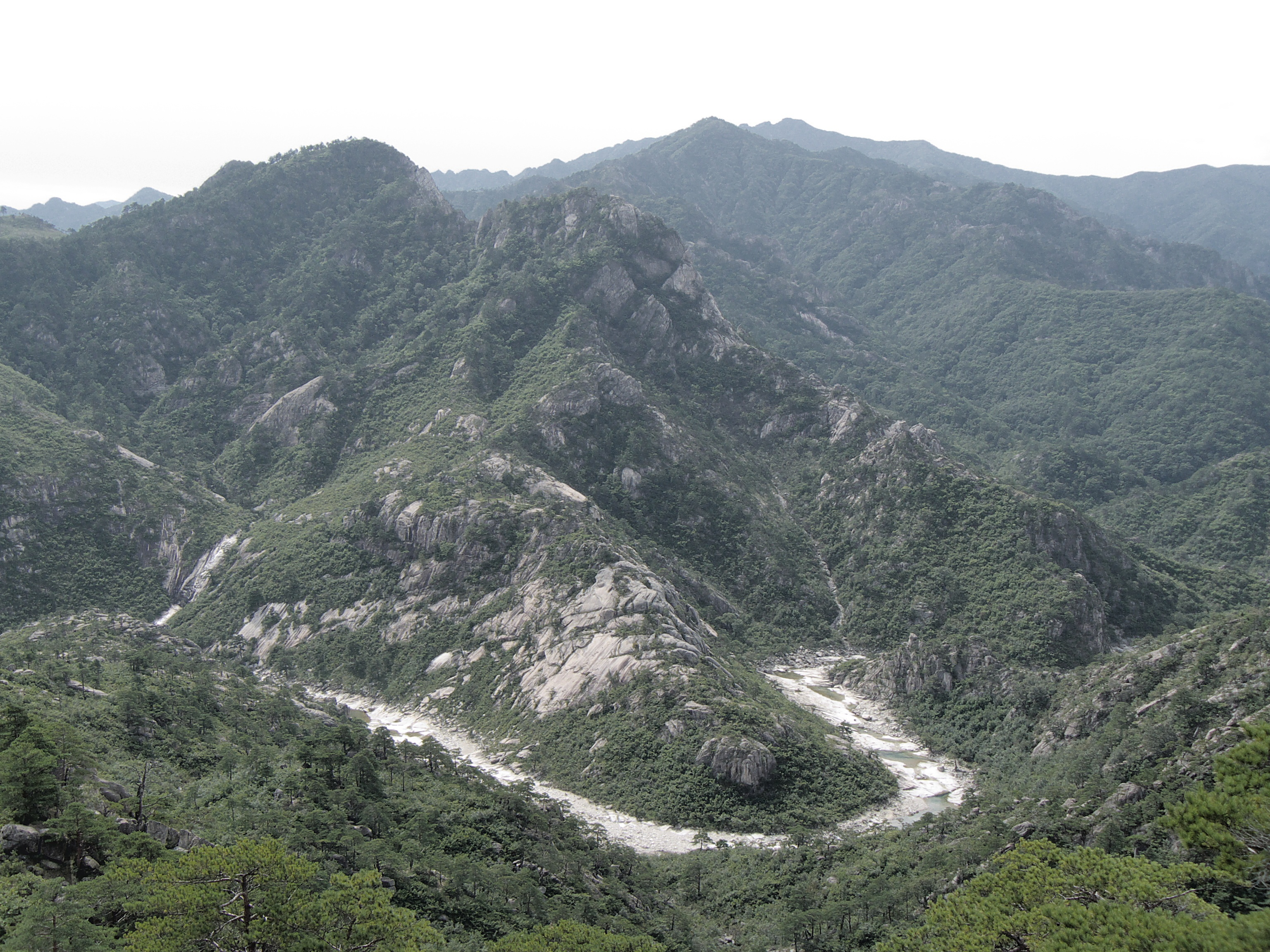 Kumgangsan, or "Diamond Mountains", lies just north of the Demilitarized Zone (DMZ), the buffer zone between North and South Korea. Since 1998 South Koreans, normally refused entry into the country, were allowed to visit Kumgangsan. South Korea suspended tours to Kumgangsan in July 2008 after a South Korean woman was shot dead in the area by KPA soldiers. The North claimed the woman had trespassed into an restricted area and ignored repeated warnings to leave, placing the blame squarely on her. Requests by the South for an investigation into the incident were flatly rejected.